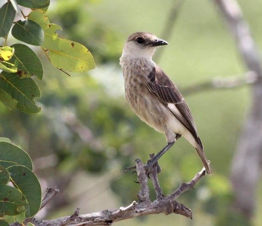 Congo moor chat at Tembe in Angola